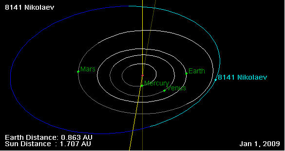 8141 Nikolaev orbit, and his position on 01 Jan 2009 (NASA Orbit Viewer applet)